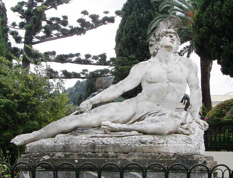 Closeup of Achilles thniskon in Corfu Achilleion autocorrected August 30 2006